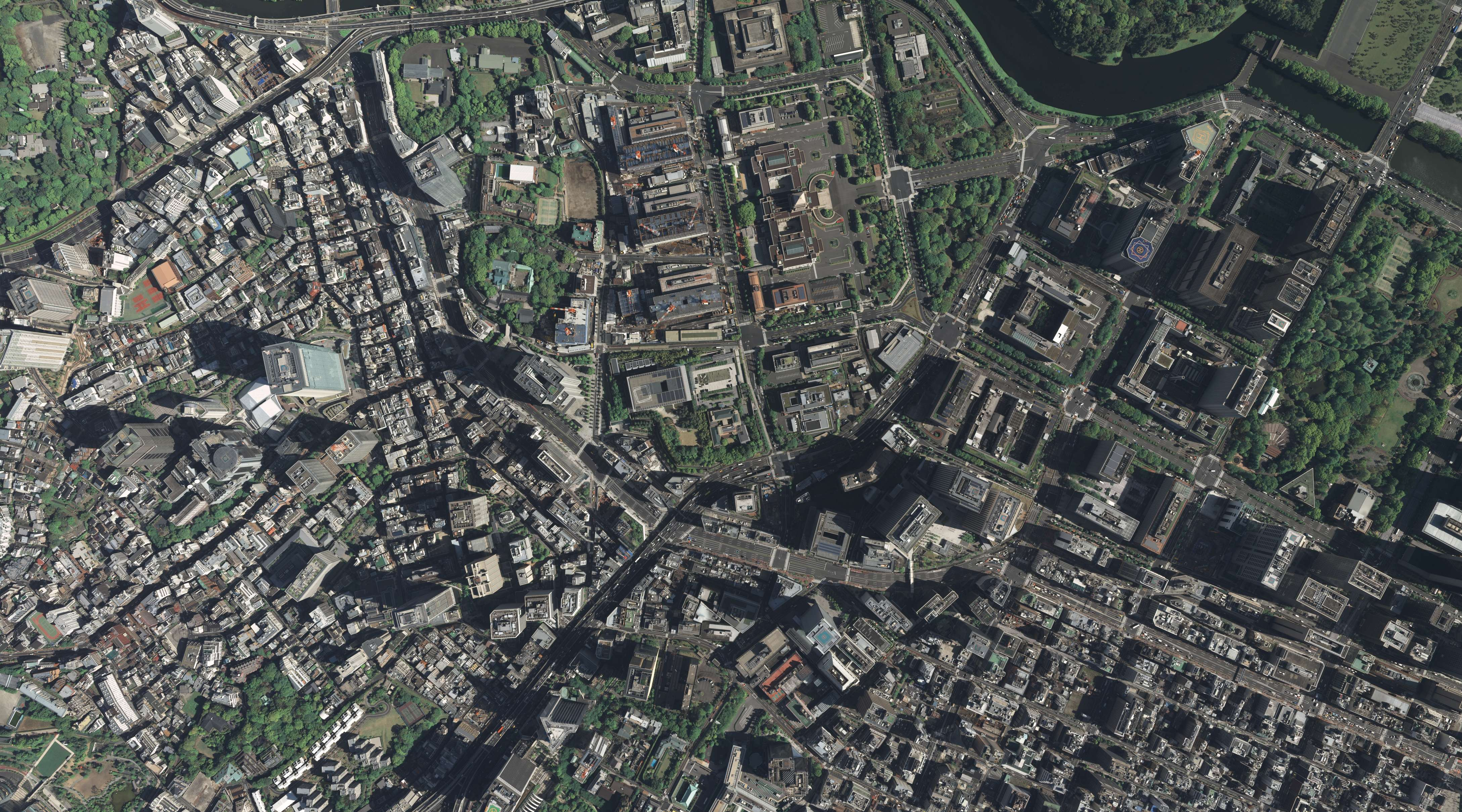 The Geographical Survey Institute took the aerial photograph in Chiyoda Ward, Tōkyō Metropolis on April 27, 2009.